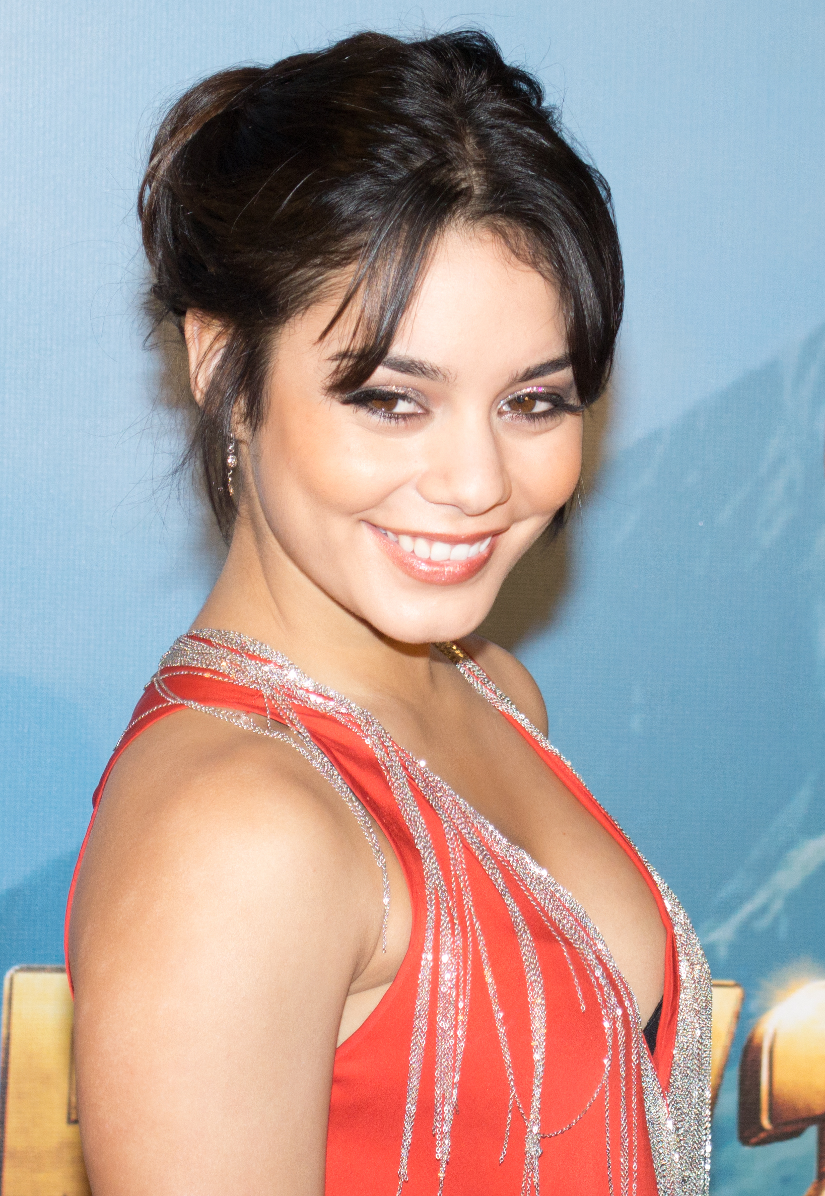 Vanessa Hudgens at Benefit Cosmetics And Vanessa Hudgens Kick-Off National Wing Women Weekend.